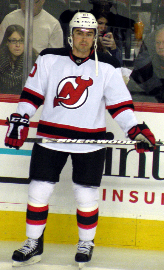 New Jersey Devils forward Steven Zalewski prior to a National Hockey League game against the Calgary Flames, in Calgary.